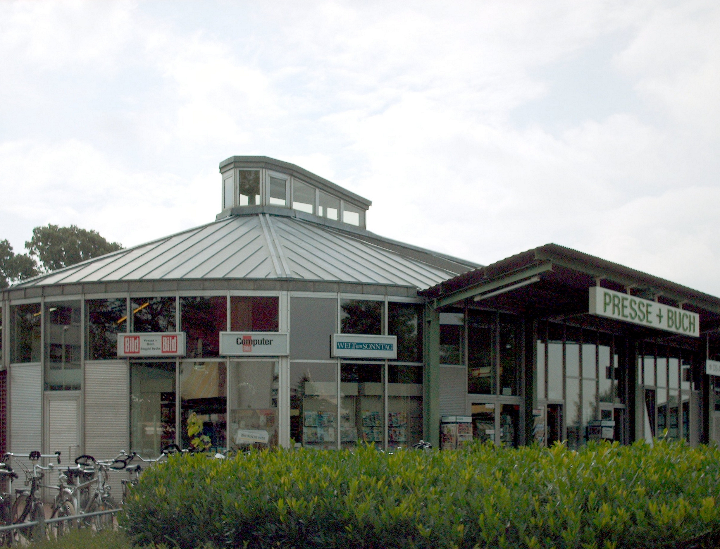 Bocholt station, Bocholt, Germany check usage